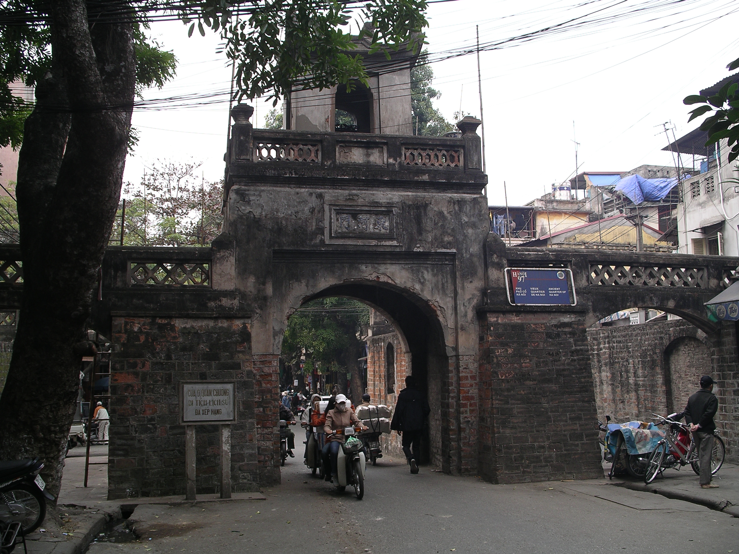 One of the old ports in Hanoi, Vietnam